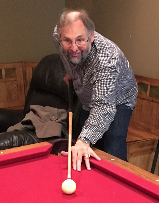 Pastor Mark Biltz playing pool, November 2016